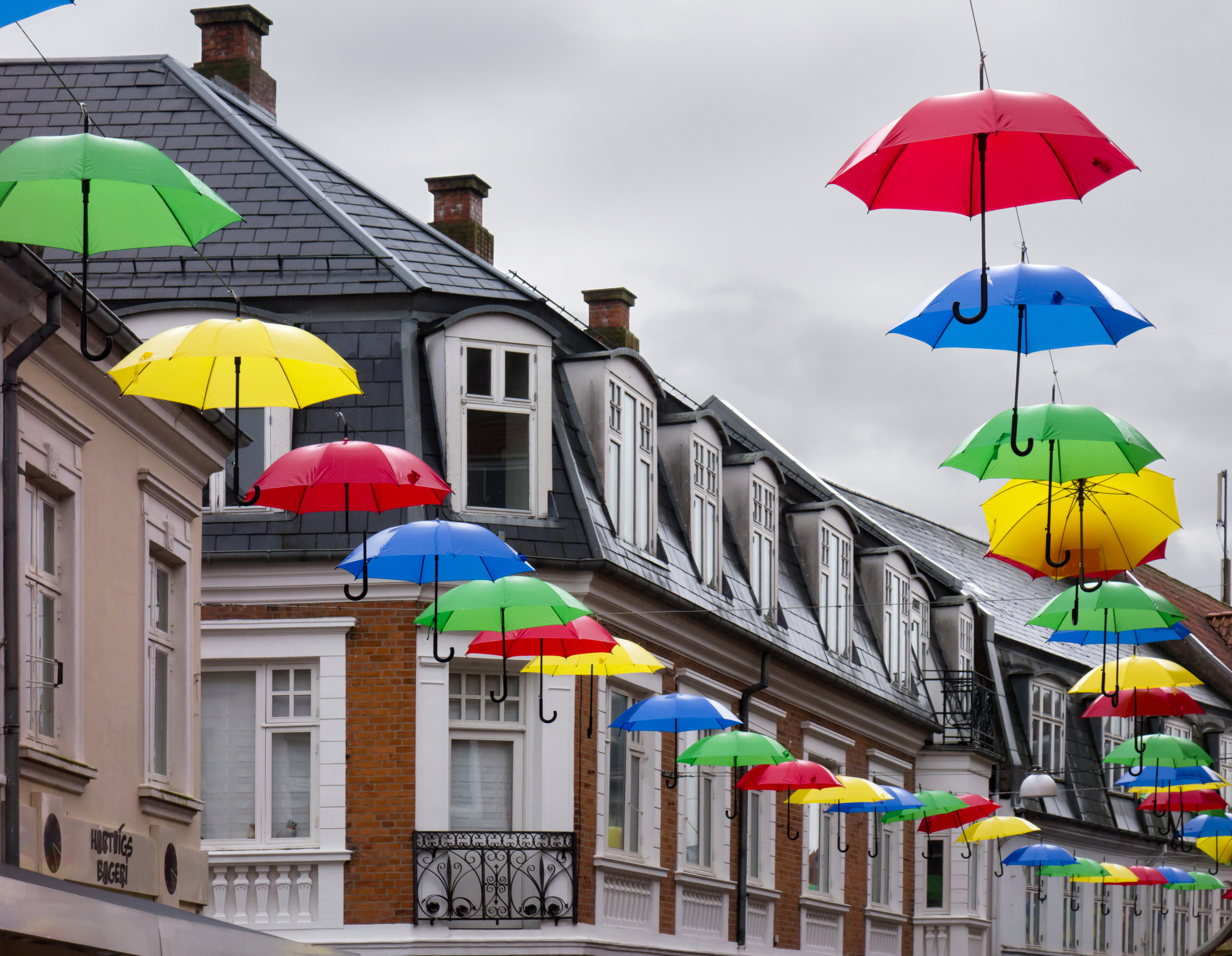 Umbrellas of various colours hanging over Vestergade, Viborg, Denmark. The photo was taken during heavy rain. It was composed from three photos to achieve a balance of light, exposure as well as size.